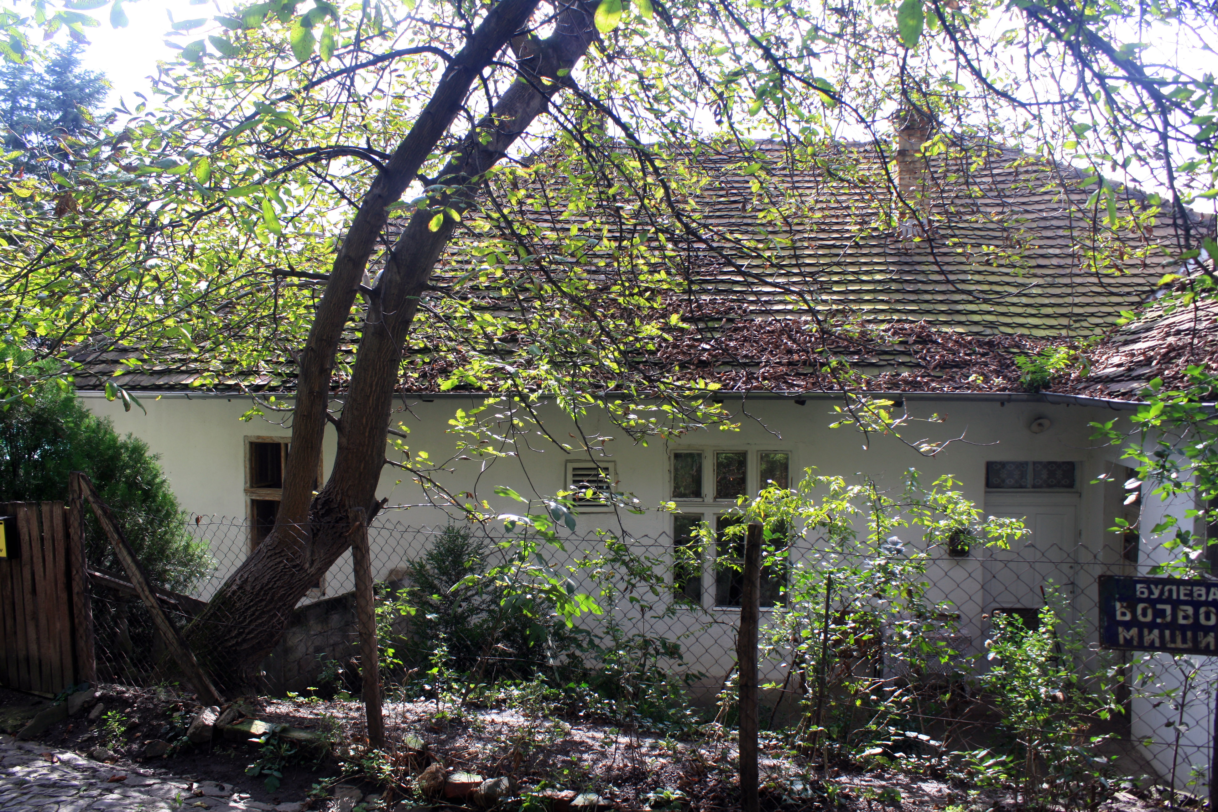 Home of Archibald Reiss in Belgrade, Serbia